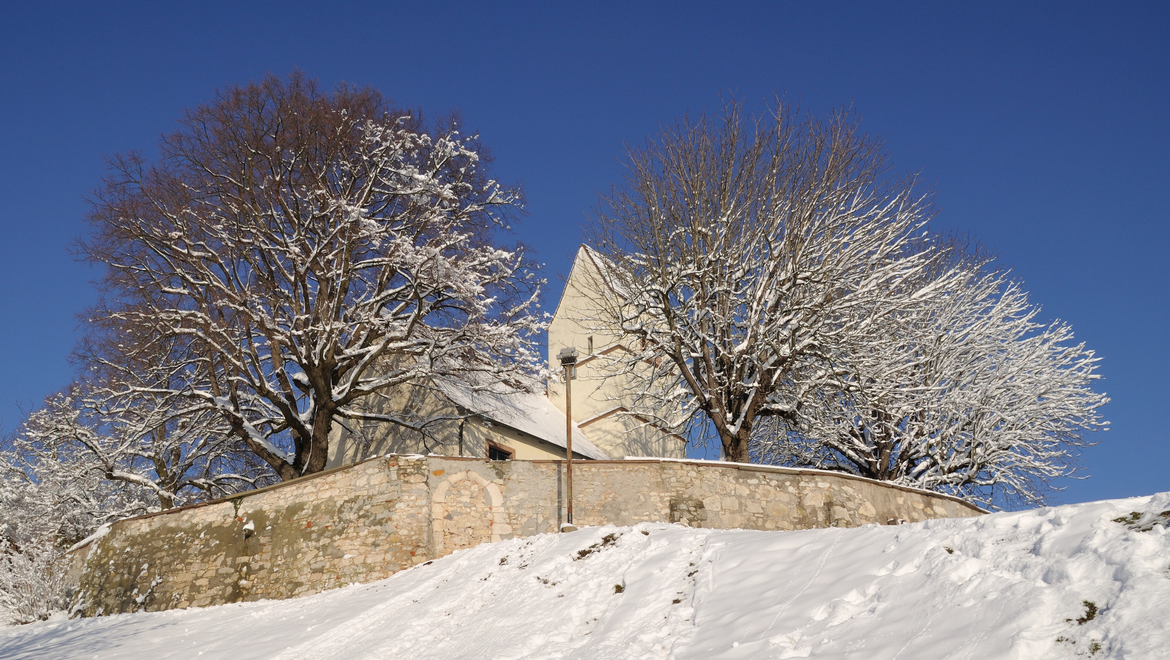 Lörrach-Tüllingen: Church Saint Ottilia